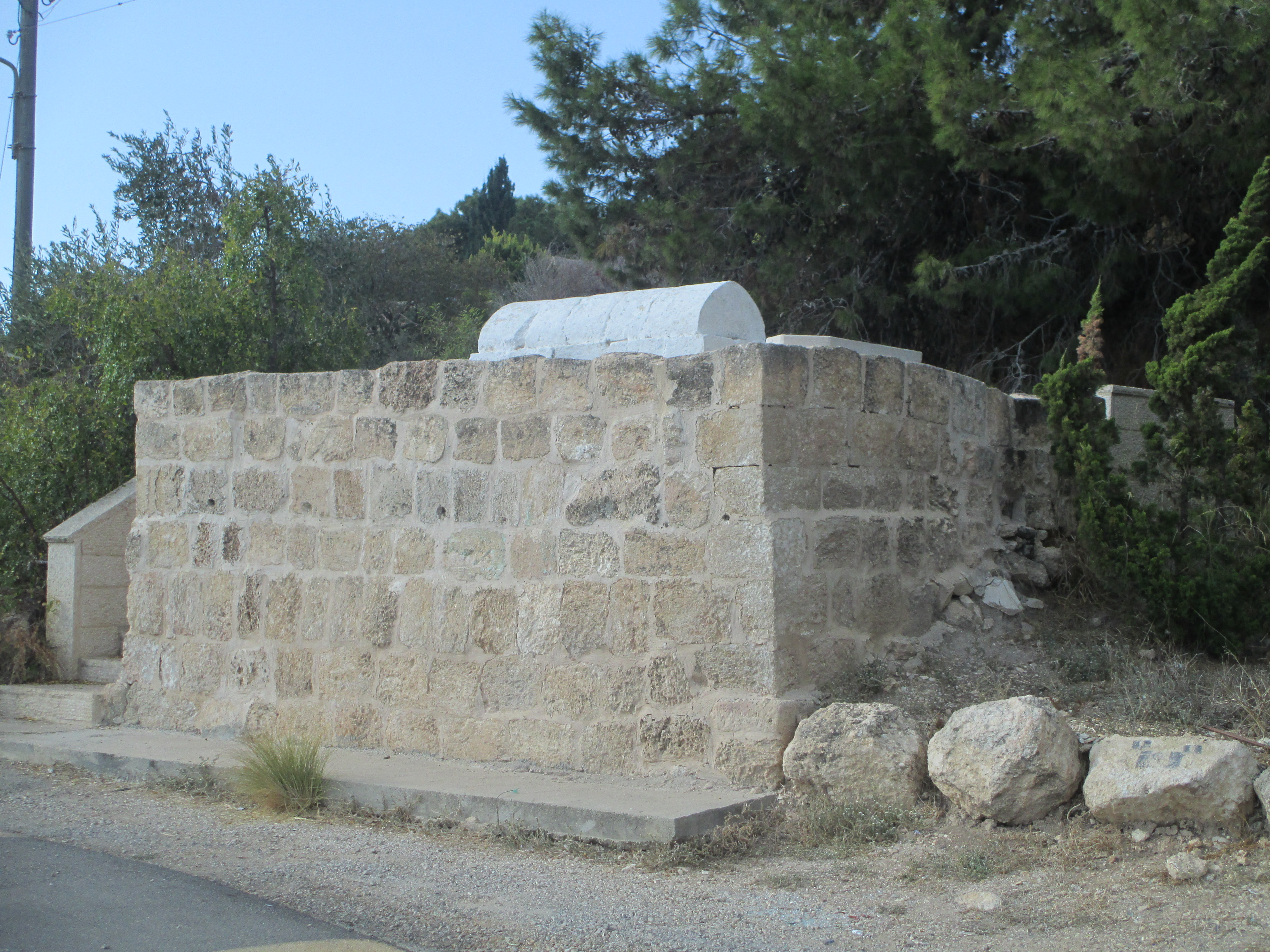 Sheikh Abu Muhammad tomb in Kibbutz Beit Haemek